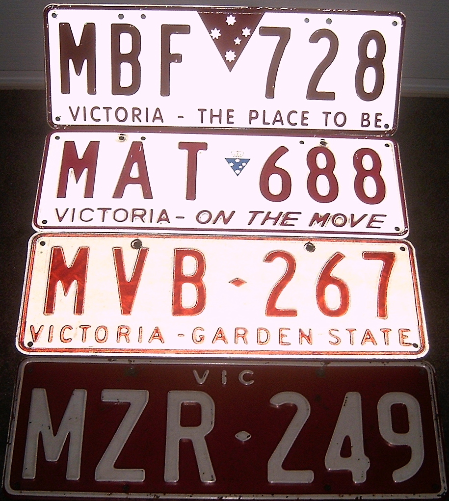 my collection